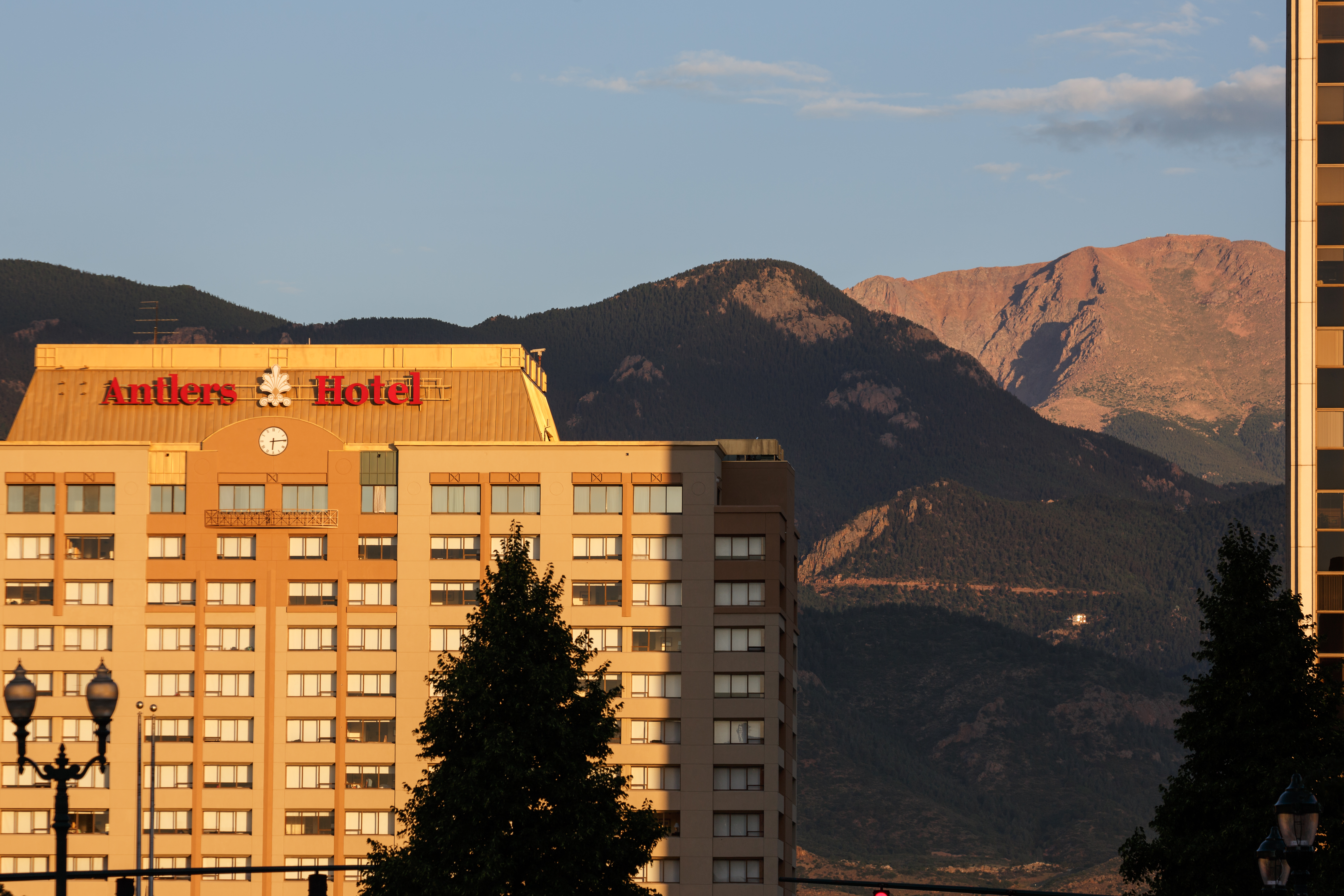 Exterior